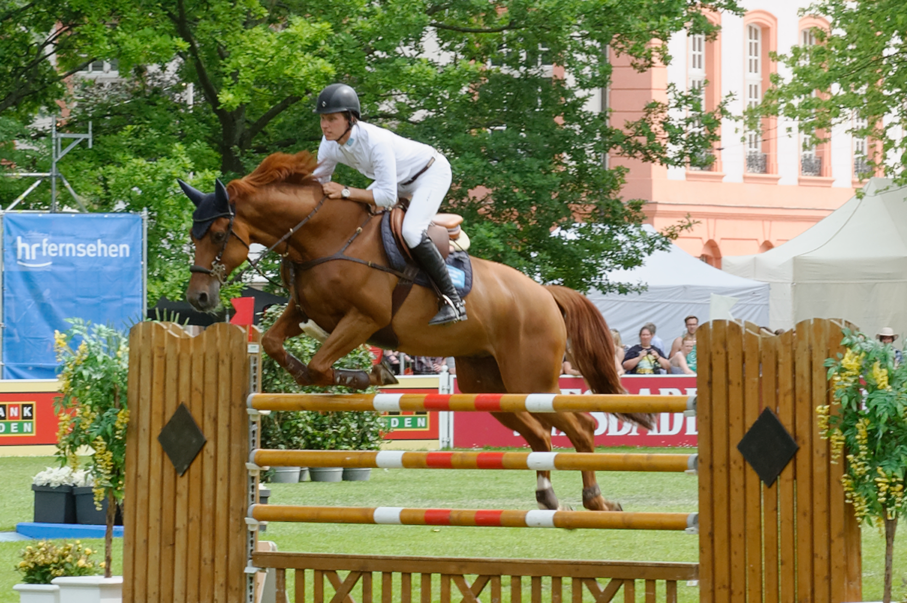 Internationales Pfingstturnier Wiesbaden 2014 The making of this document was supported by the Community-Budget of Wikimedia Germany.